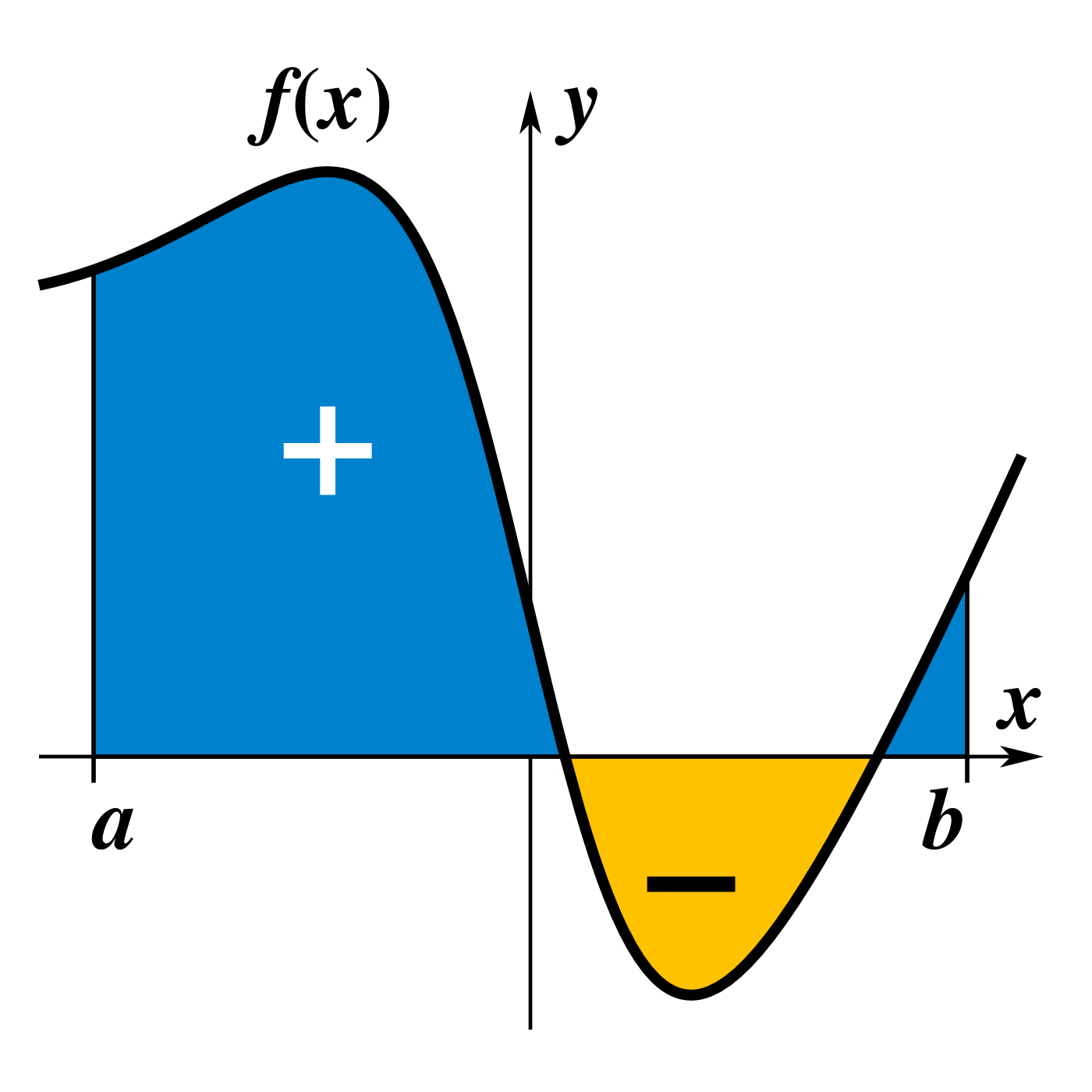 Plot of function showing integral as area